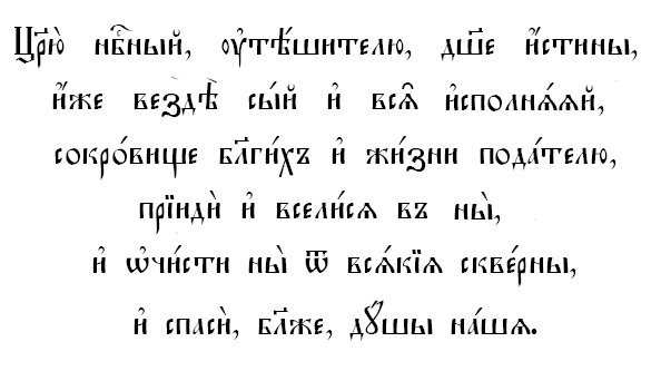 Russian traditional Prayer: Царю небесный (O, Heavenly King) In Church Slavonic.